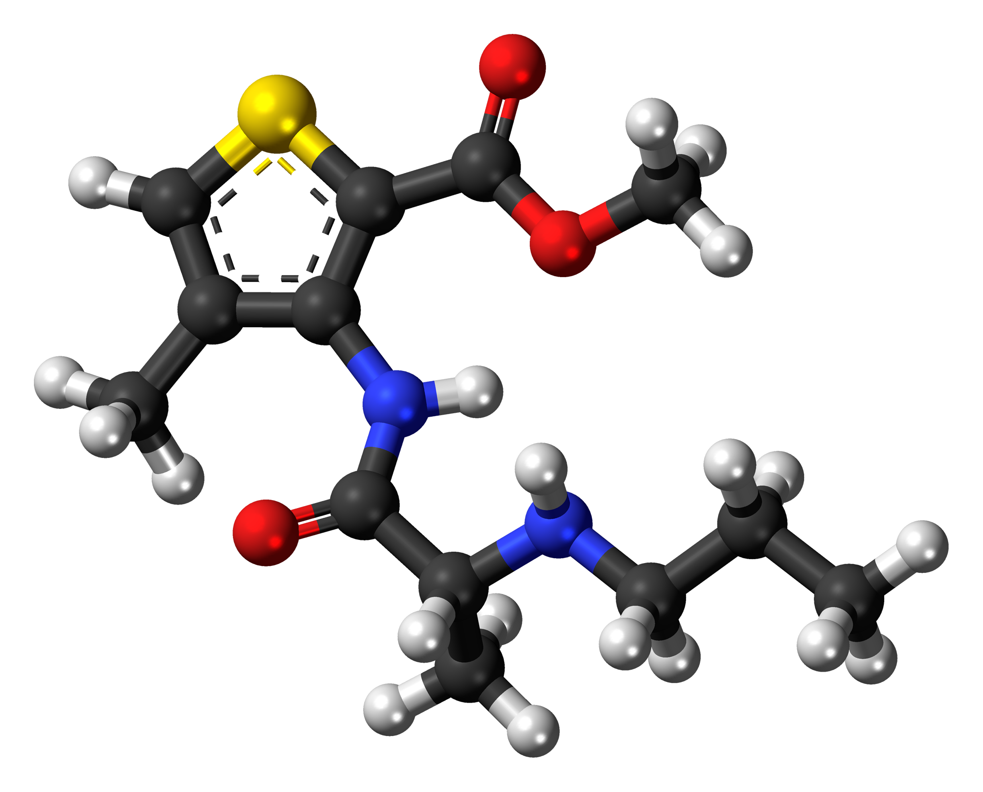 Ball-and-stick model of the articaine molecule, a dental local anesthetic. Colour code: Carbon, C: black Hydrogen, H: white Oxygen, O: red Nitrogen, N: blue Sulfur, S: yellow